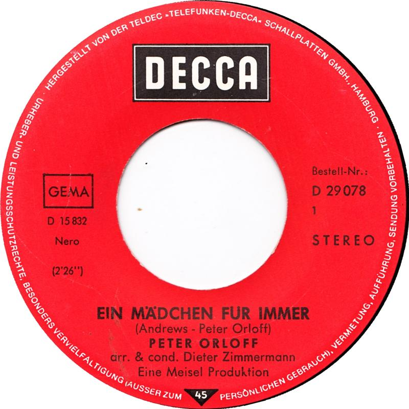 1971 Single by Decca Records (D 29 078).